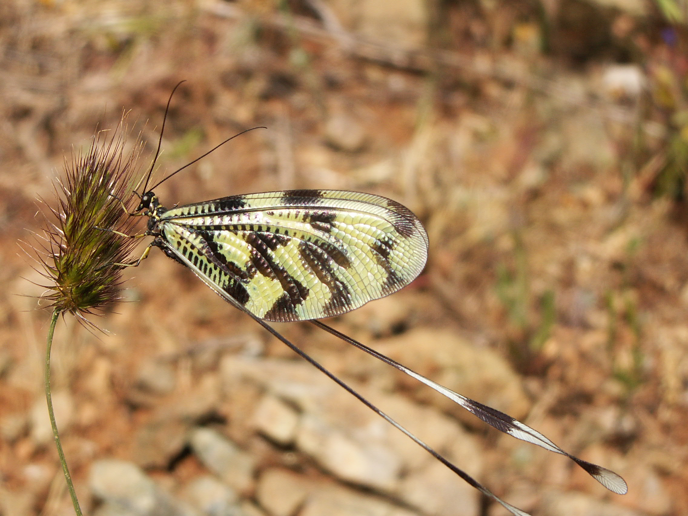 Nemoptera sinuata Turkey: between Marmaris and Datça, 312 m.